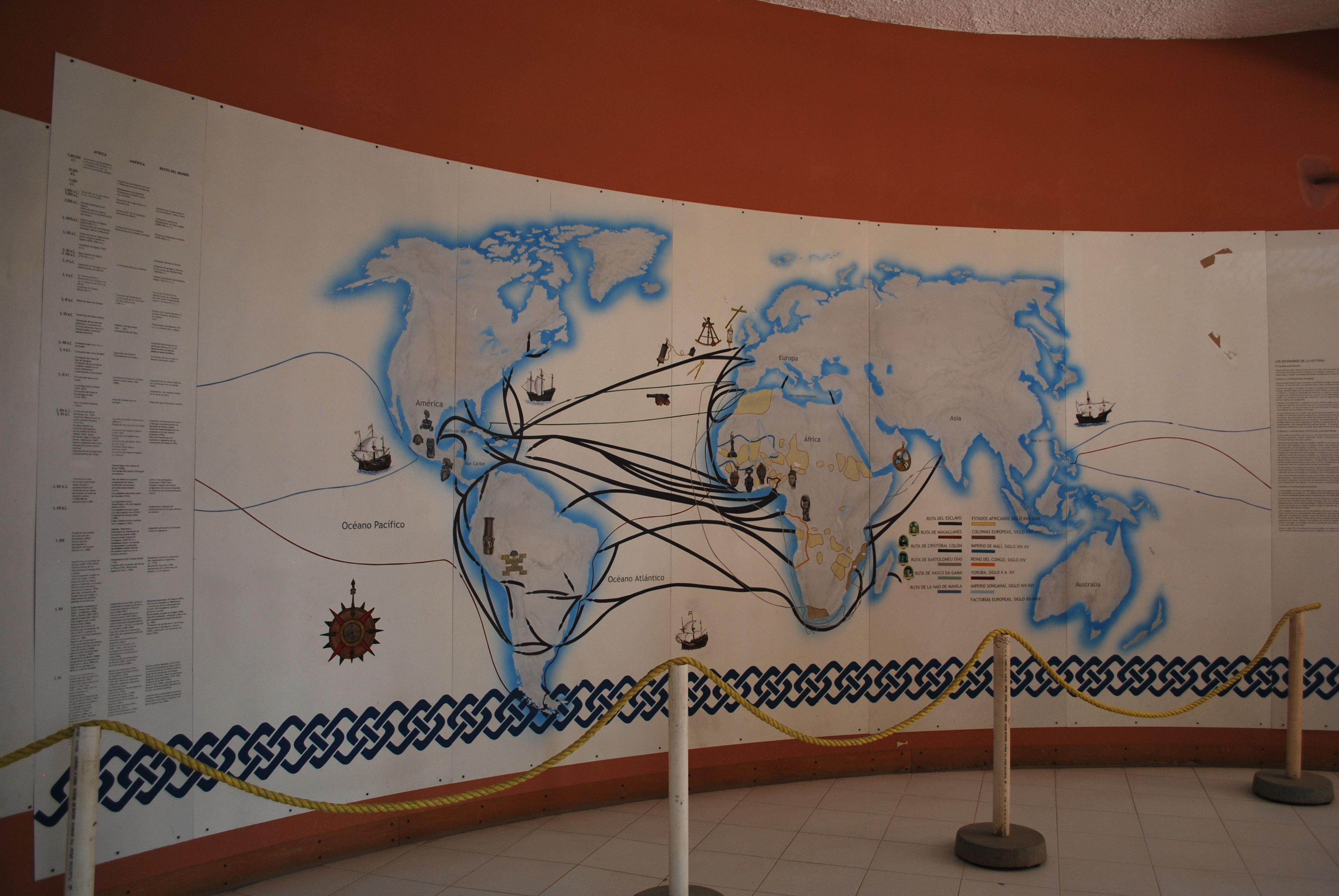 Map at the Museo de las Culturas Afromestizas in Cuajinicuilapa, Guerreo